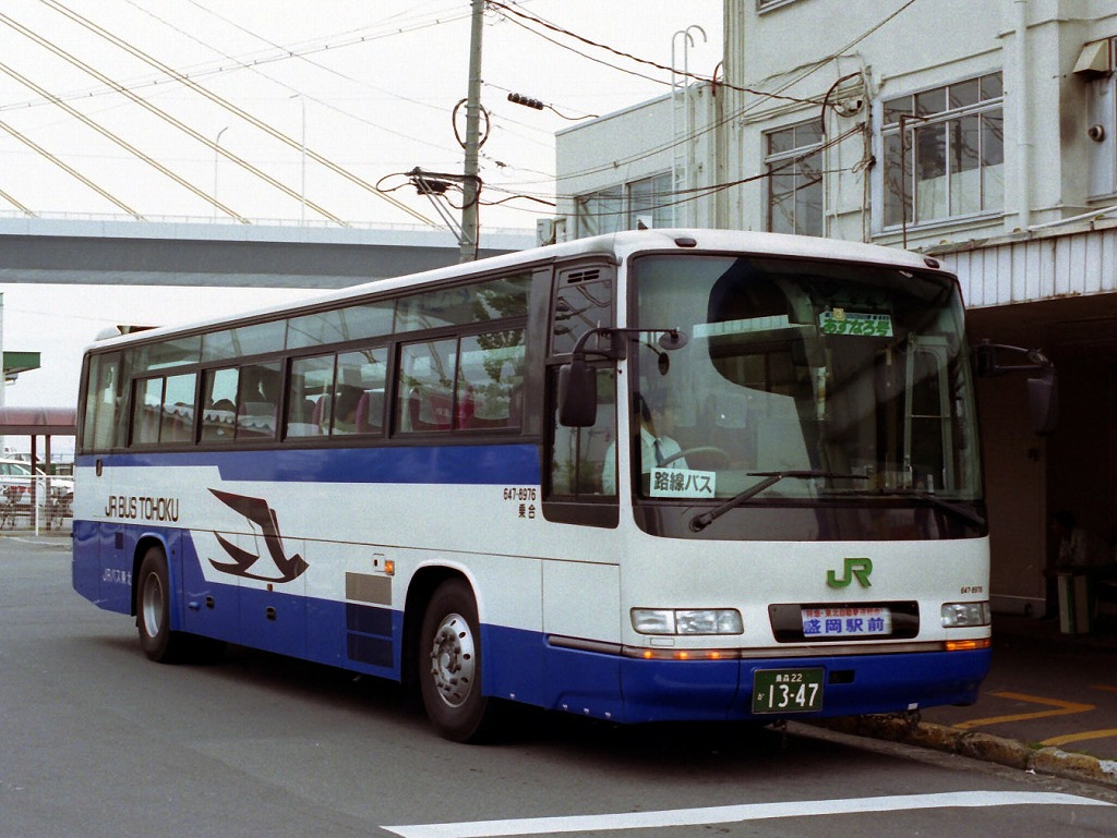 JR bus Tohoku Highwaybus "Asunaro"(Aomori-Morioka)Hino S'elega(KC-RU3FSCB)